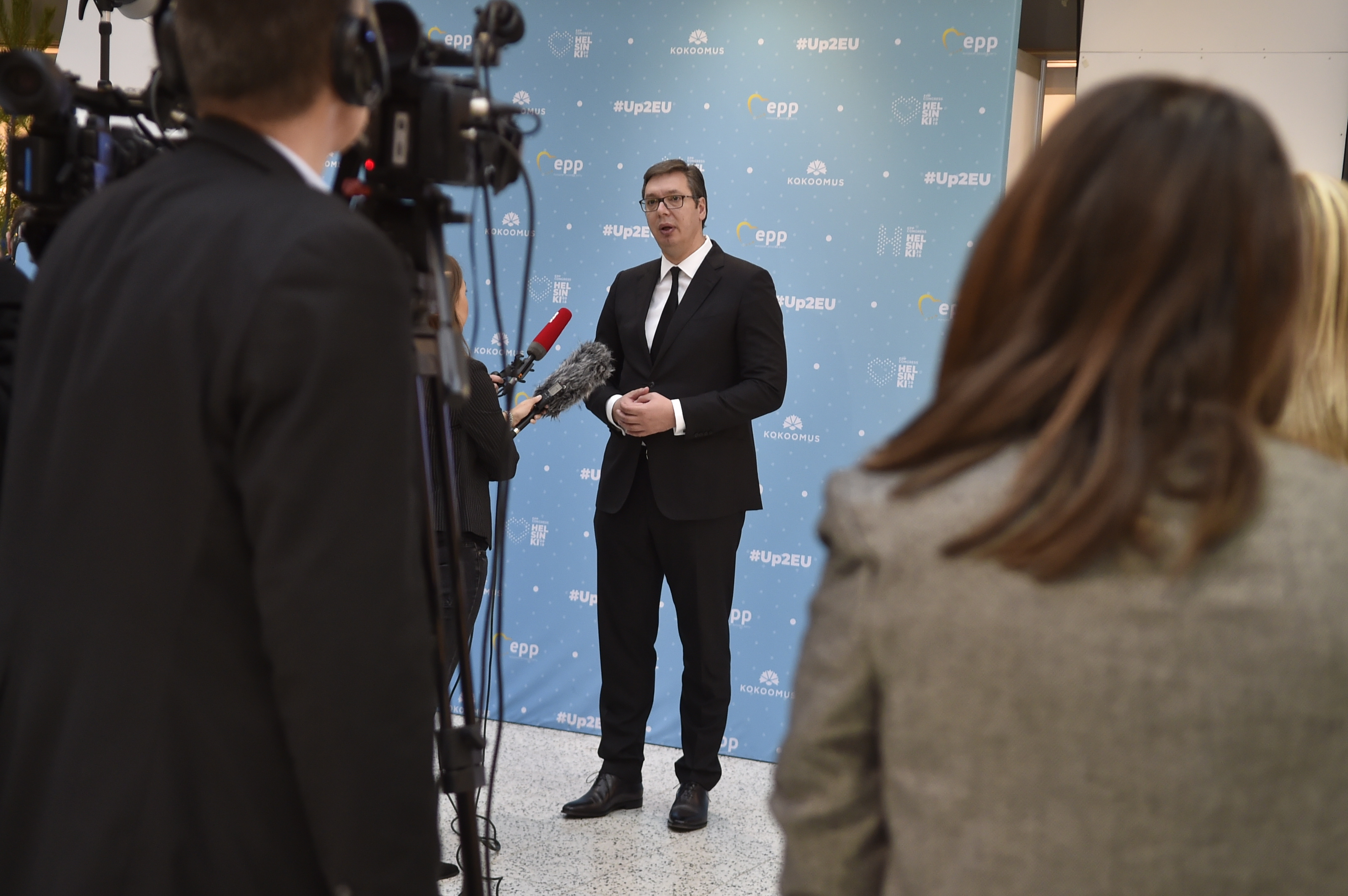 8 November